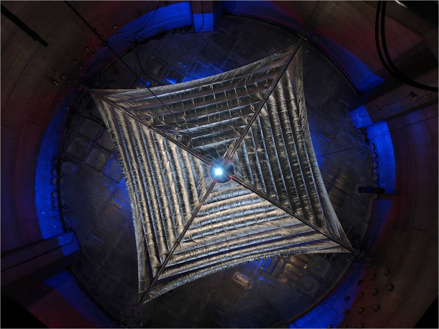 This is a picture of the Sunjammer solar sail, destined for launch in 2014.